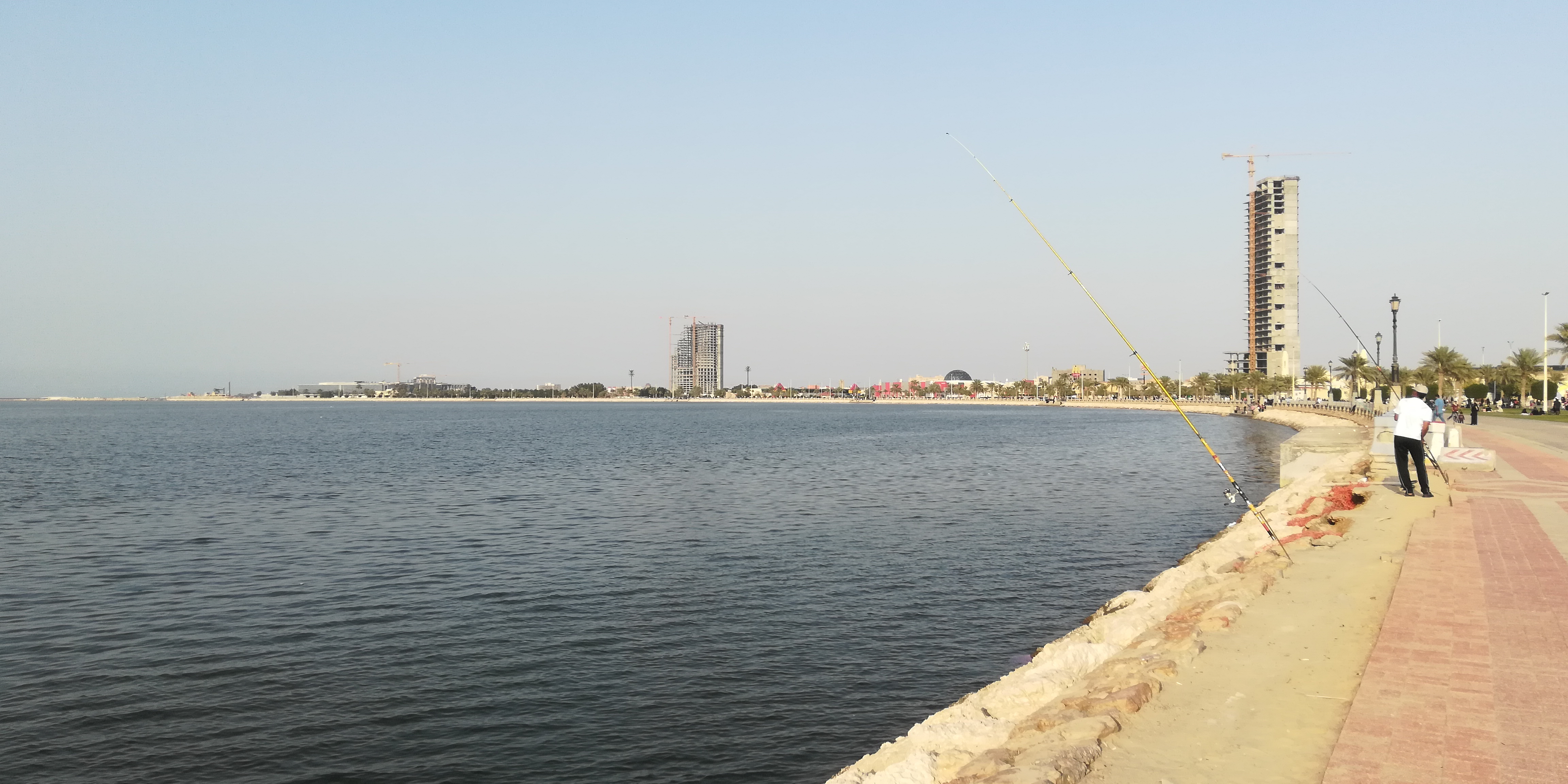 This is the image of the coast of tarout bay This photo has been taken in the country: Saudi Arabia